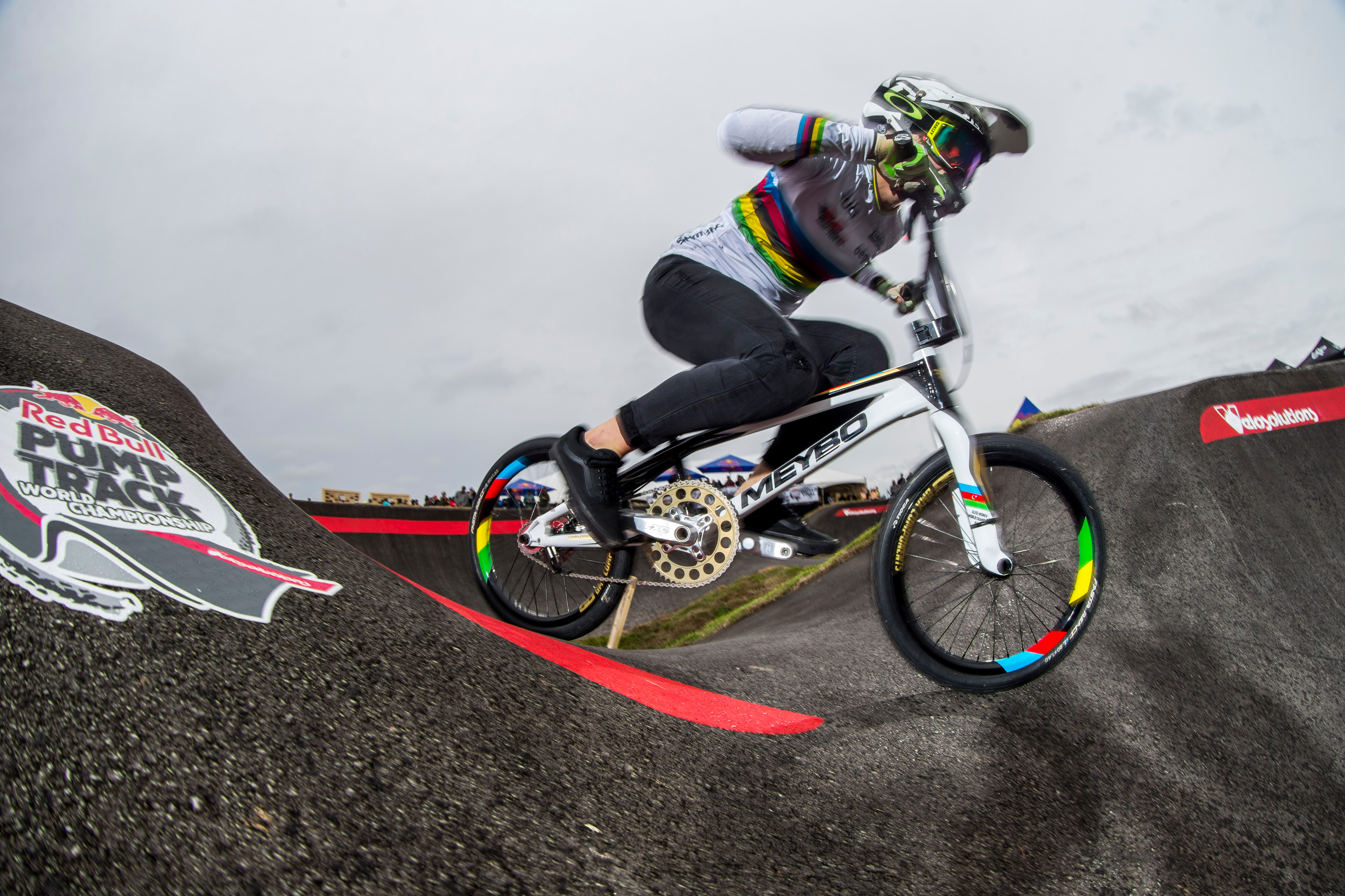 Athlete on a BMX at the world final 2017 in Springdale, USA